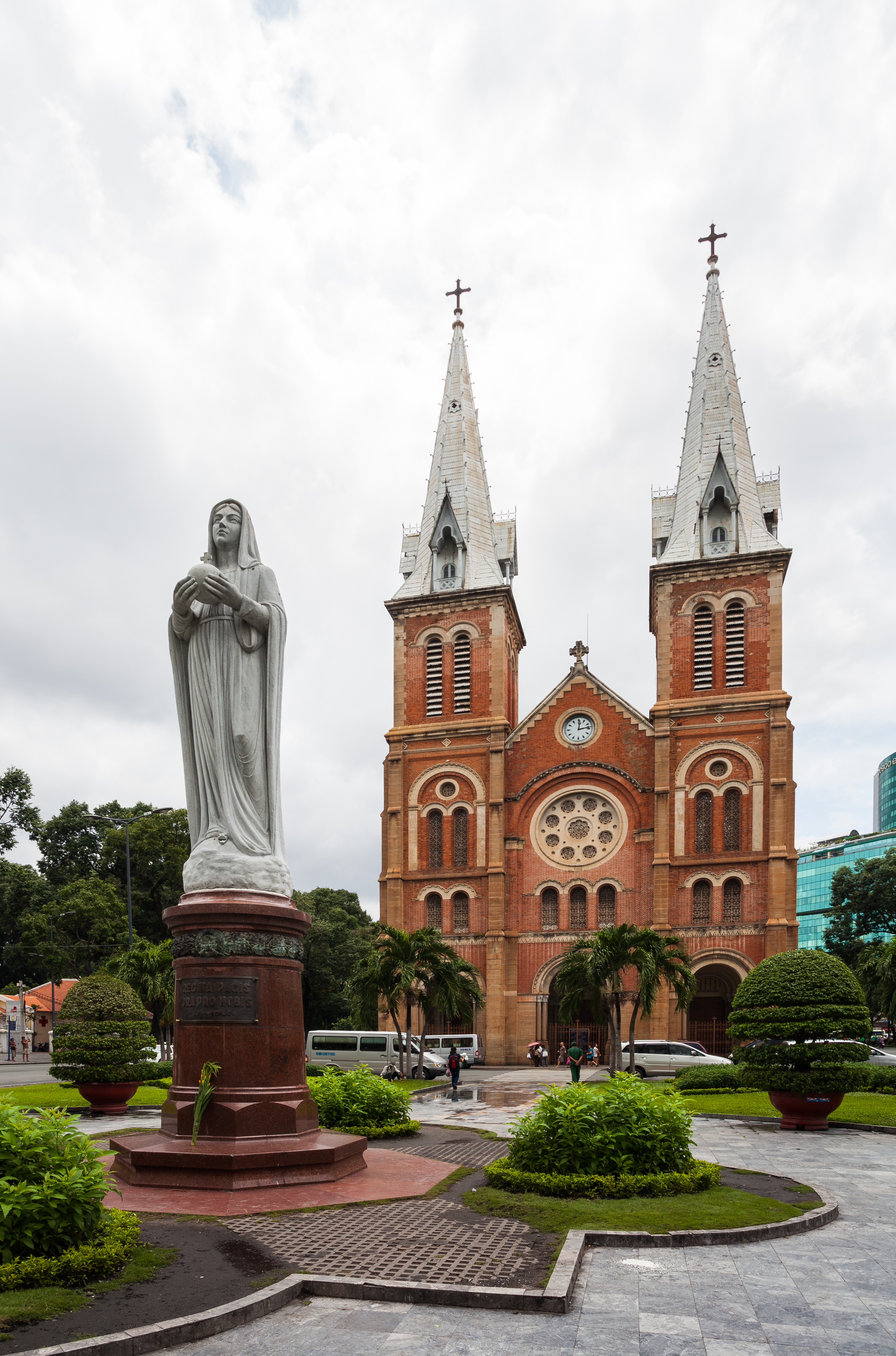 Notre-Dame Basilica, Ho Chi Minh City, Vietnam.